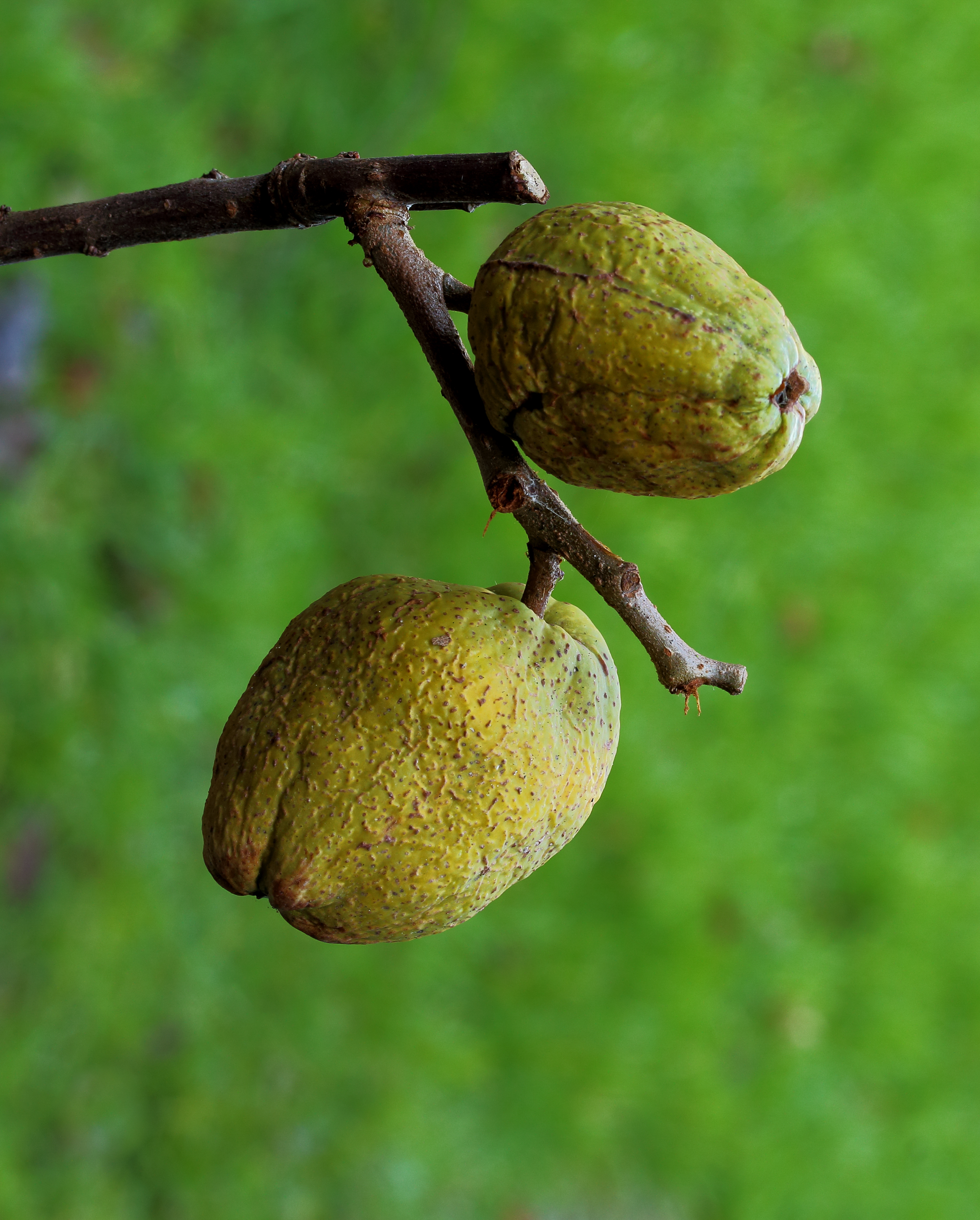 Fruit of Chaenomeles x superba 'nicolina' (Chinese quince). Location. garden sanctuary JonkerValley.